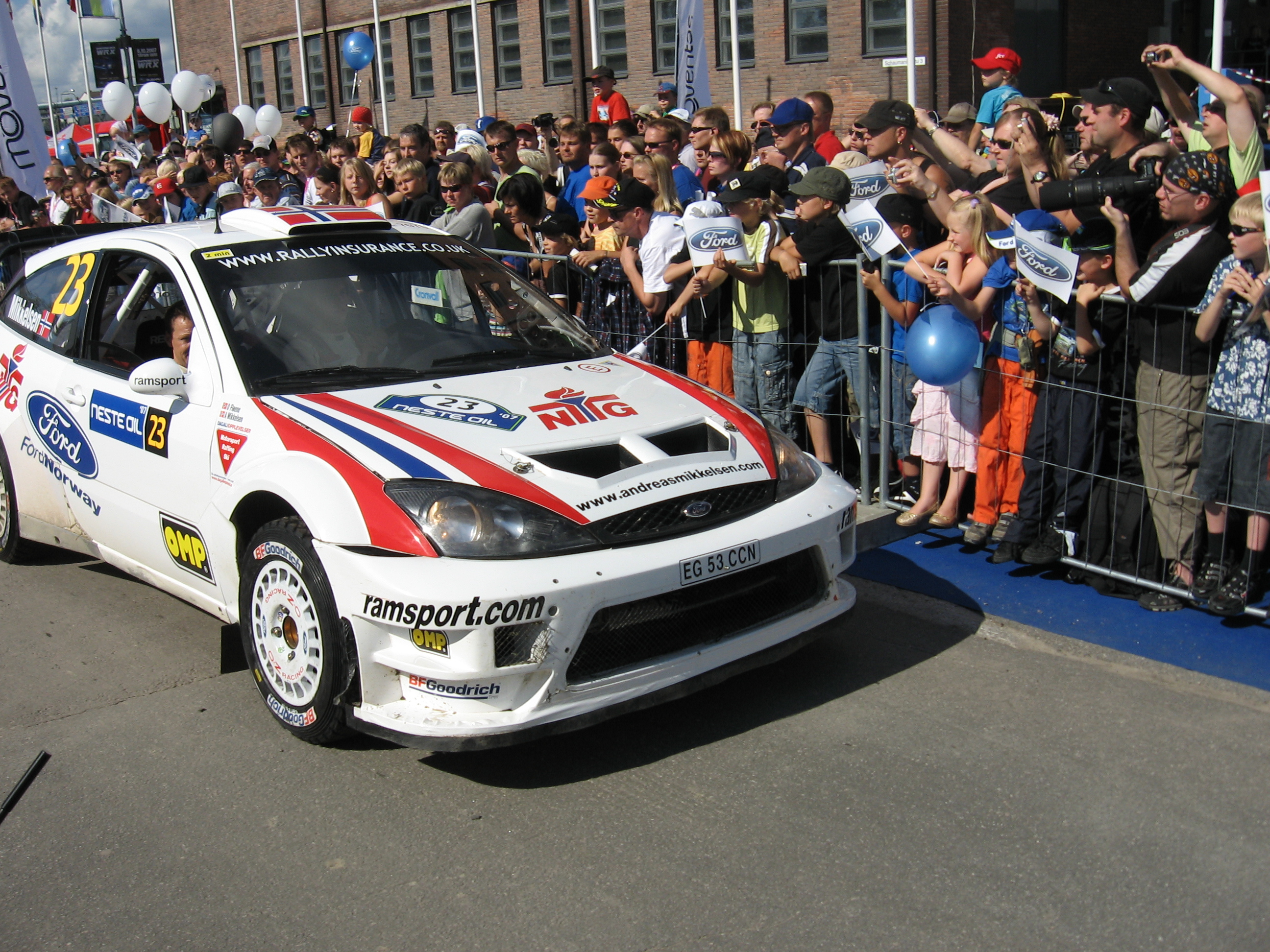 Action from the service park during service F in the 2007 Rally Finland.